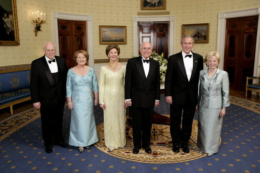 President George W. Bush, Laura Bush, Vice President Dick Cheney and Lynne Cheney stand with Australian Prime Minister John Howard and his wife Mrs. Janette Howard in the Blue Room for a photograph during the official dinner